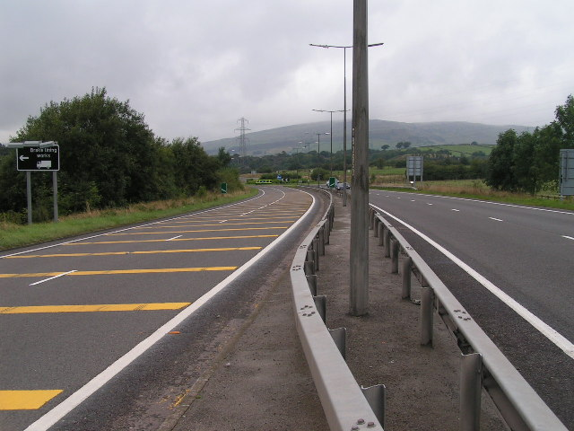 A6, Chapel-en-le-Frith. Looking northwest from the footpath crossing. The "Brake lining works" signposted (left) is Ferodo, the largest employer in Chapel-en-le-Frith, and the hill in the background is Chinley Churn (SK0383).